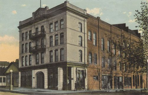 Historic Morton Theatre Exterior